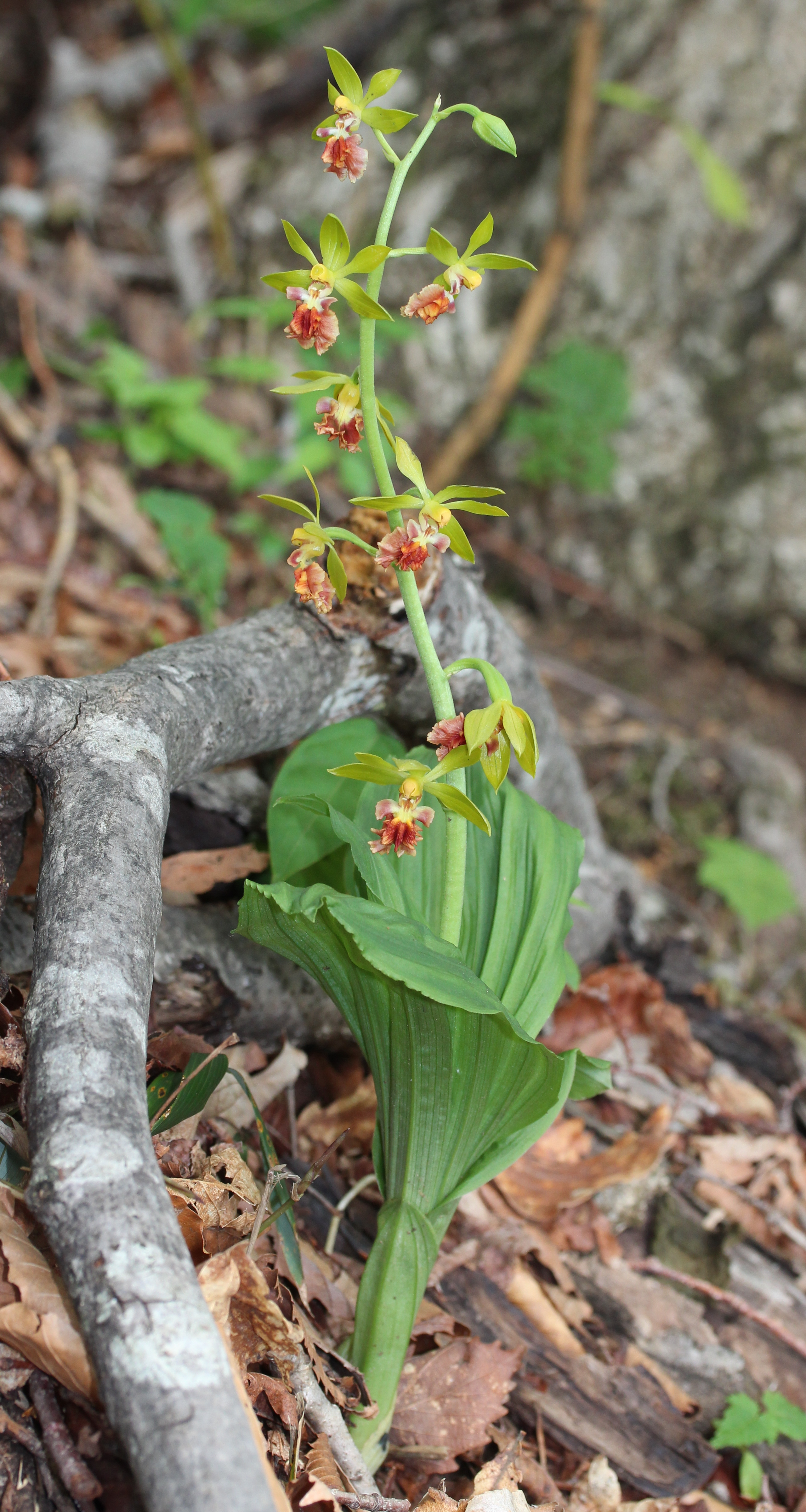 Calanthe tricarinata, in Gifu pref., Japan.